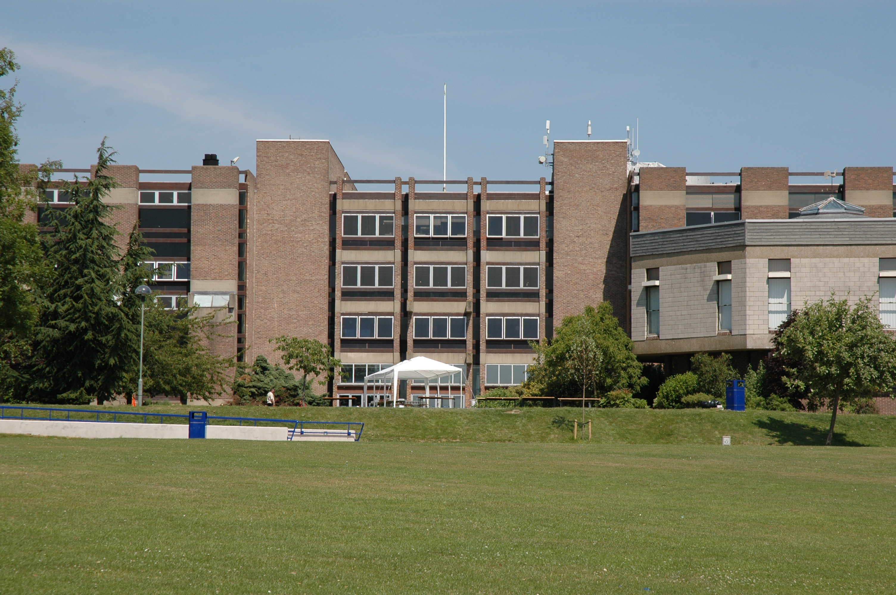 Photo taken by myself. Category:Images of the University of Kent